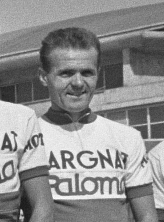 The Margnat-Paloma team at the 1964 Tour de France: Jean Anastasi, Federico Bahamontes, André Darrigade, Jean Graczyk, Esteban Martín, Claude Mattio, Jean Milesi, Joseph Novales, Eddy Pauwels and José Segú.